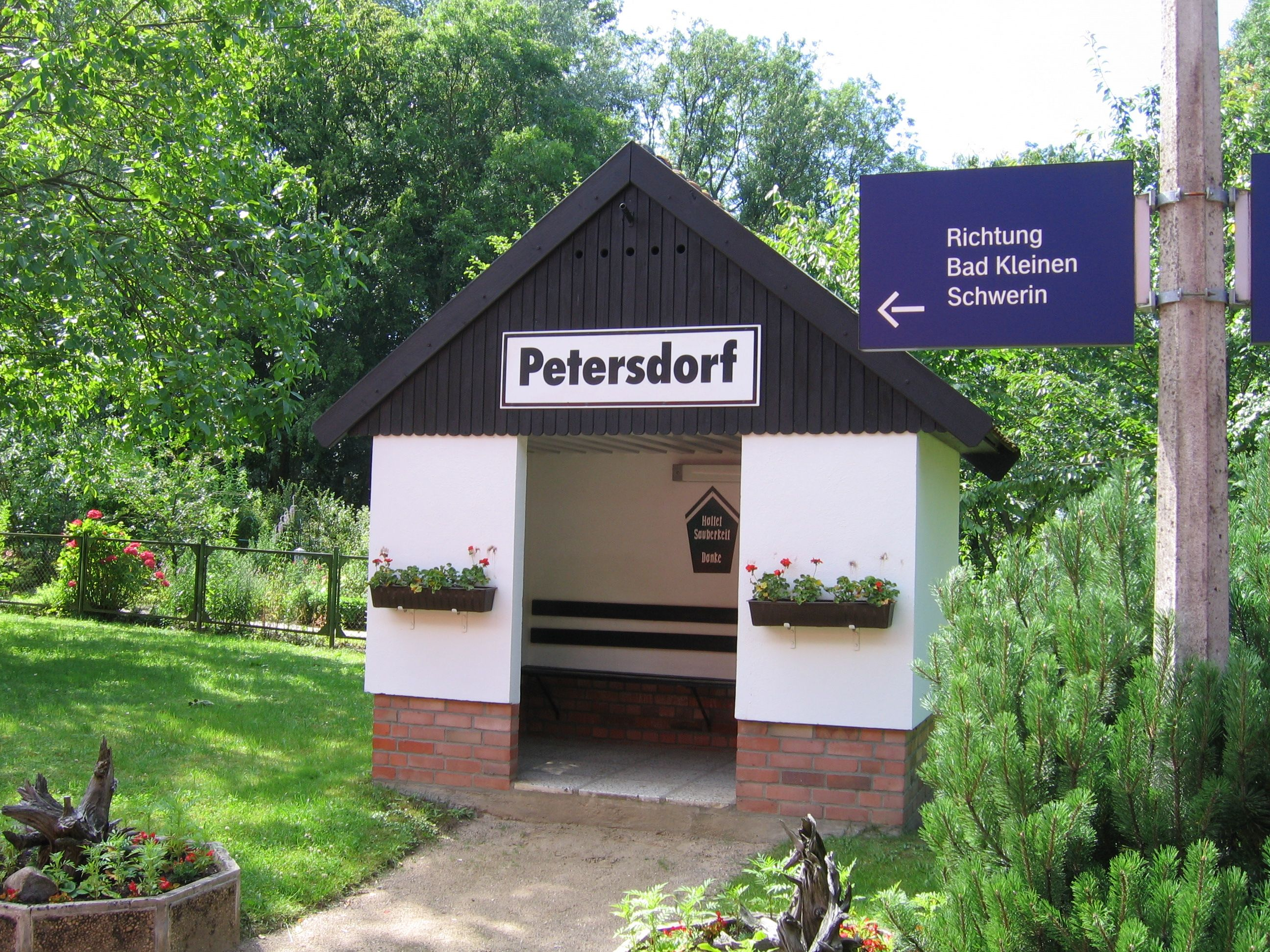 Rail stop Petersdorf (Mecklenburg-Vorpommern)